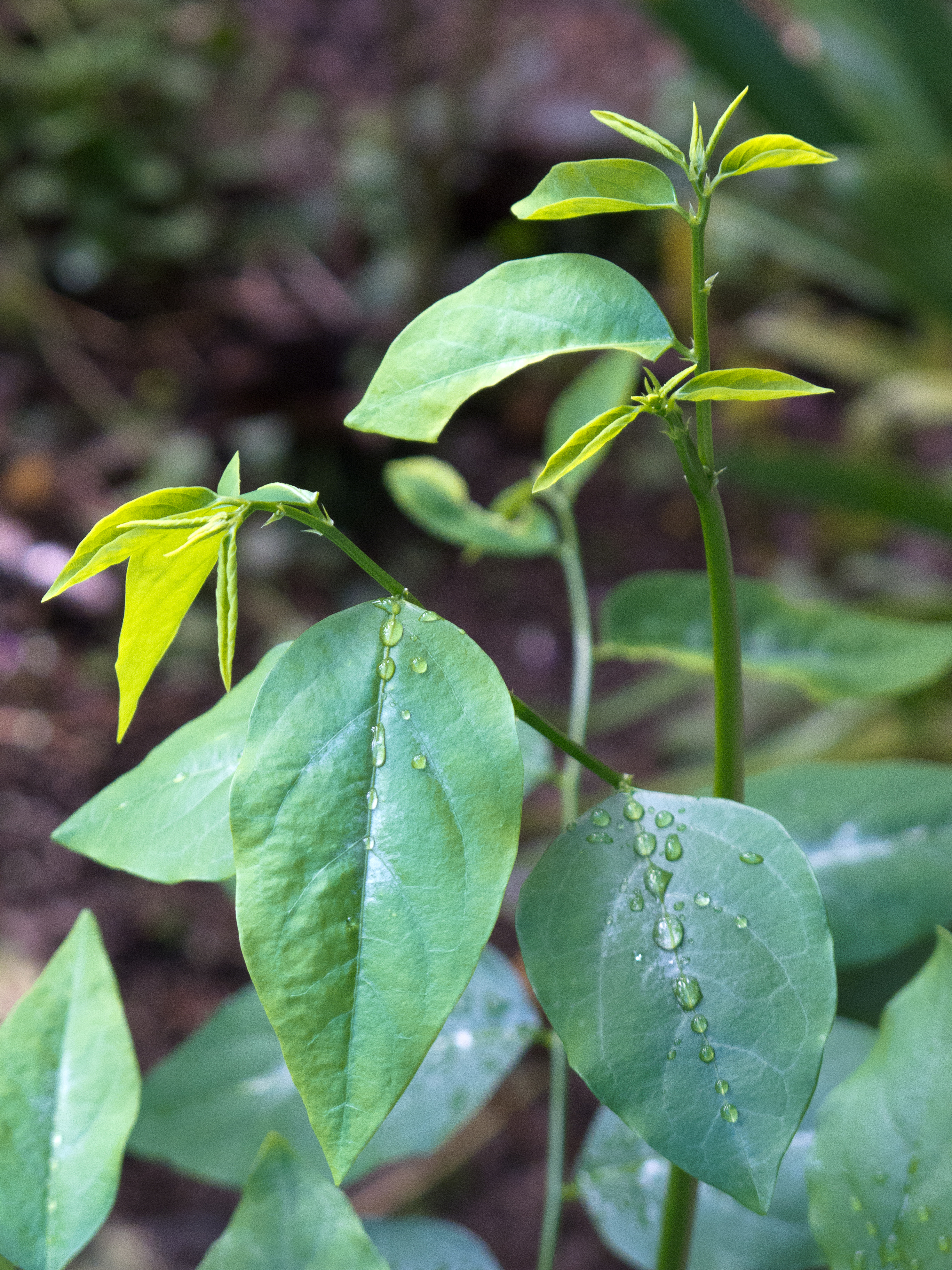 Sprouting shoots of Sauropus androgynus